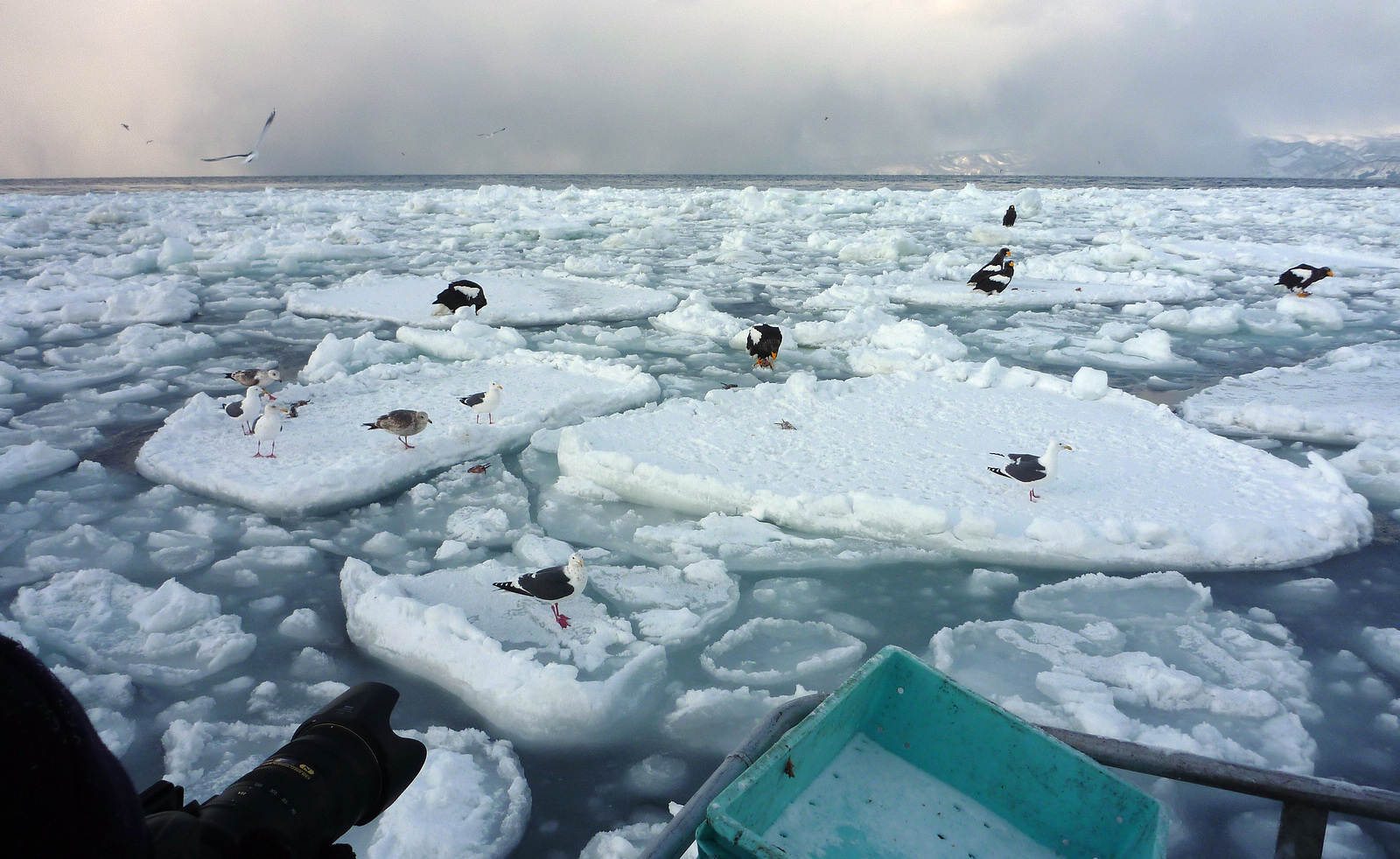 Steller's Sea Eagles and Slaty-backed Gulls. Hokkaido, Japan.